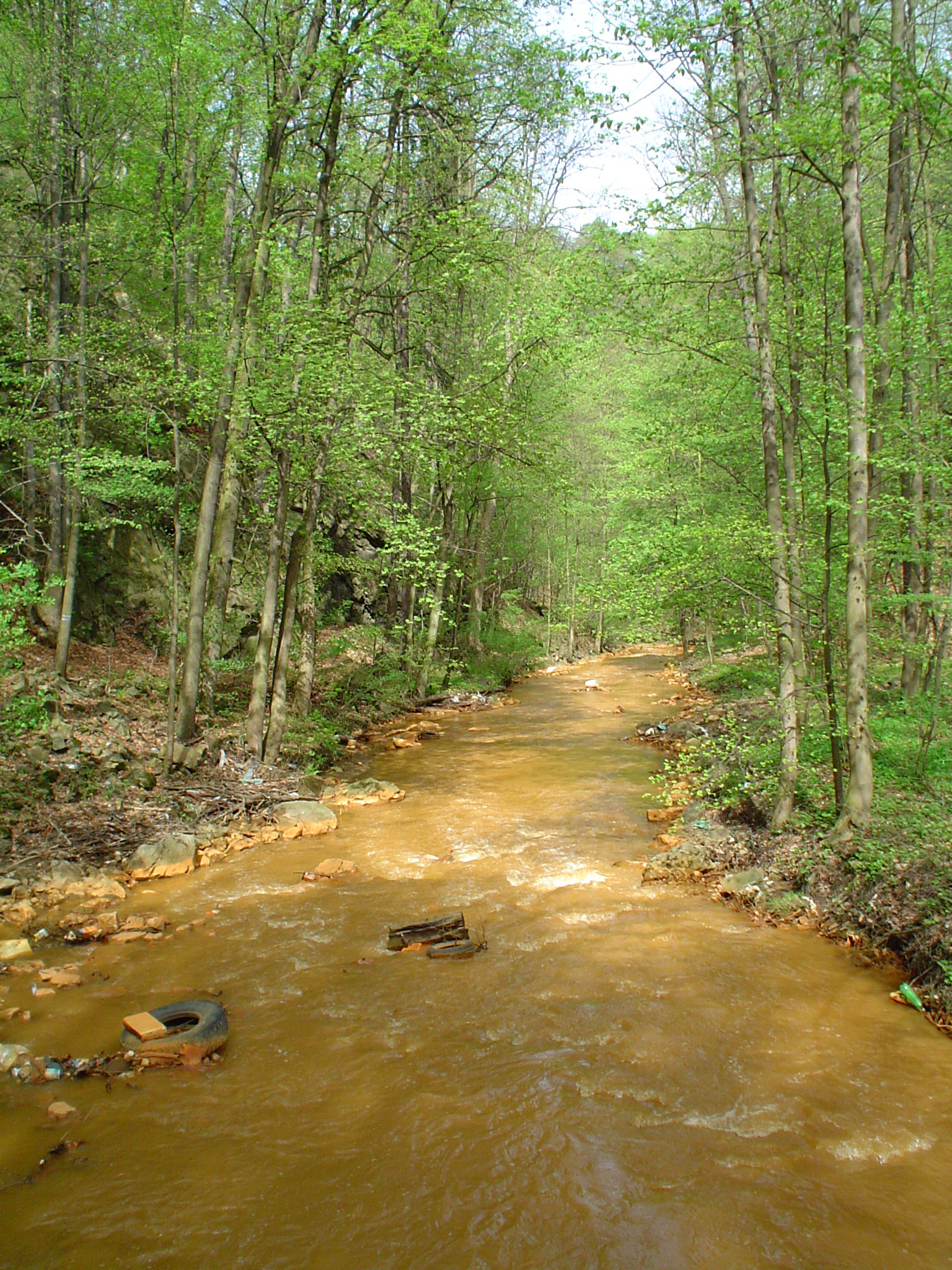 Pełcznica River, Lower Silesian Voivodship, Poland